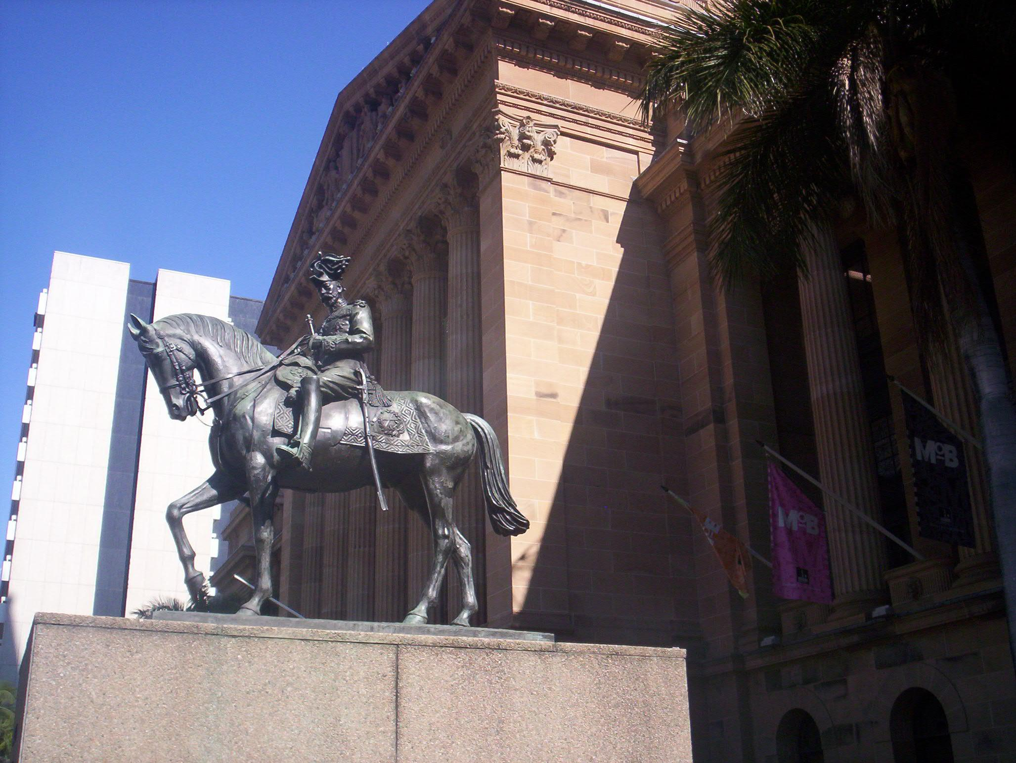 Statue of King George V in front of the Brisbane City Hall, King George Square ( this photograph was taken by Figaro )